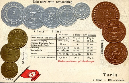 These postcards were designed by Hugo Semmler, a German businessman for cambists (people who exchange money 💴) to base their exchange courses on. After Hugo Semmler other people began producing these cards as well as they became highly popular souvenirs for tourists.